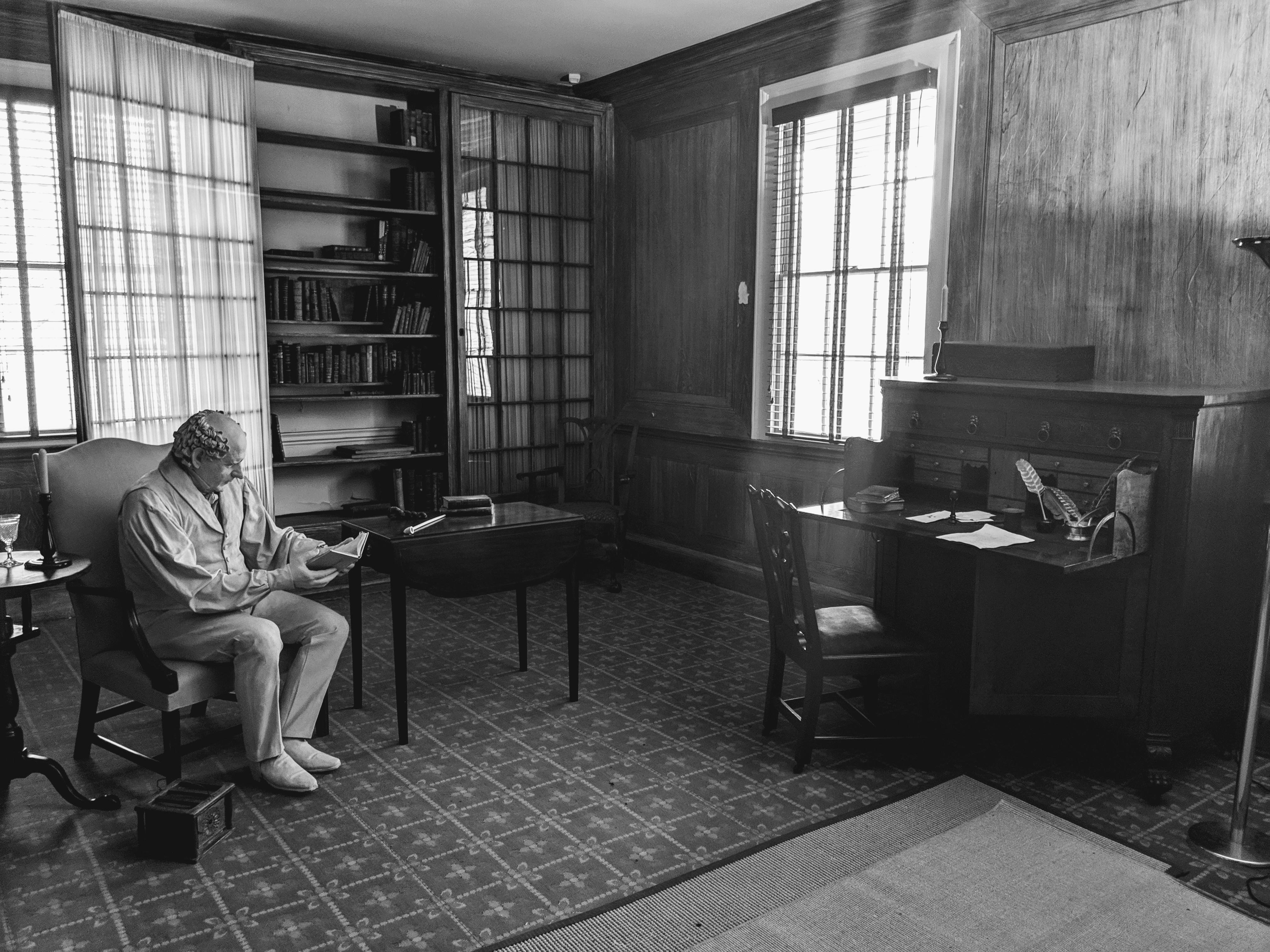 Rufus King Manor museum in Jamaica, Queens - library and study